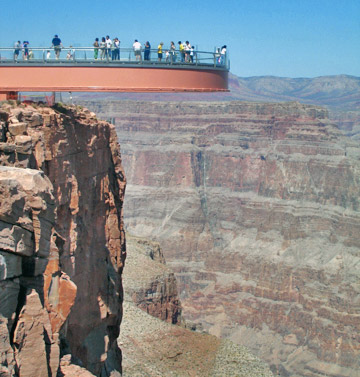 Taken personally by ComplexSimpleLLC on 04/10/